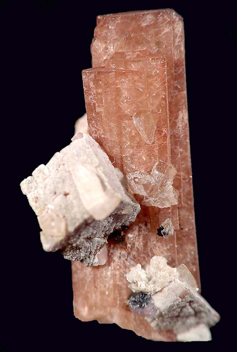 Nenadkevichite, Ancylite-(Ce) Locality: Poudrette quarry (Demix quarry; Uni-Mix quarry; Desourdy quarry), Mont Saint-Hilaire, Rouville RCM, Montérégie, Québec, Canada (Locality at ) Exceptional Nenadkevichite with ancylite crystals on the side. 1.1 x 0.6 x 0.4 cm